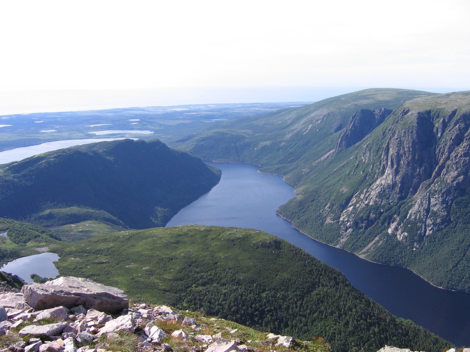 A Fjord in Gros Morne national park, Newfoundland